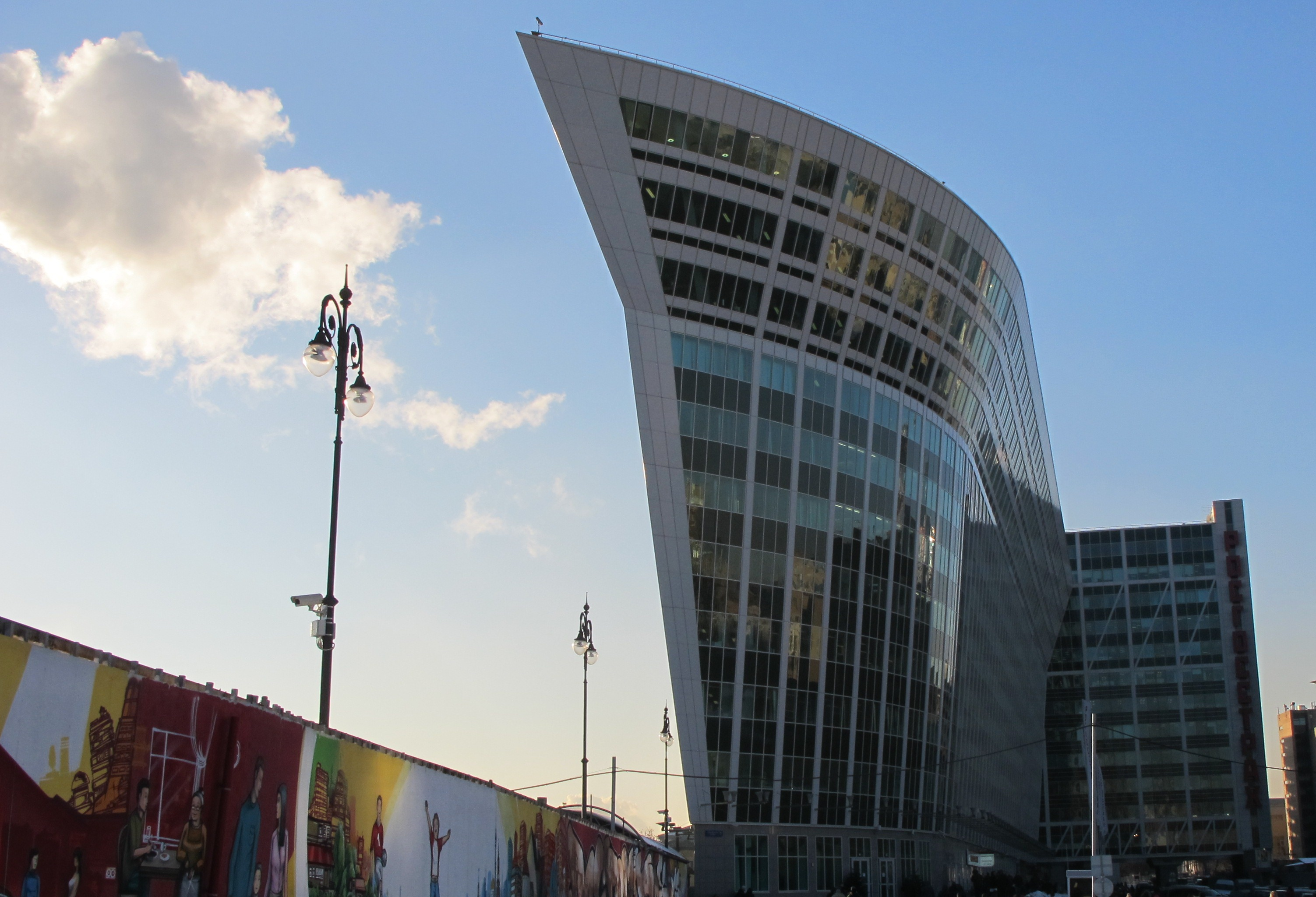 Head office of insurance company "Rosgosstrakh" in Moscow, Kiyevskaya street, 7